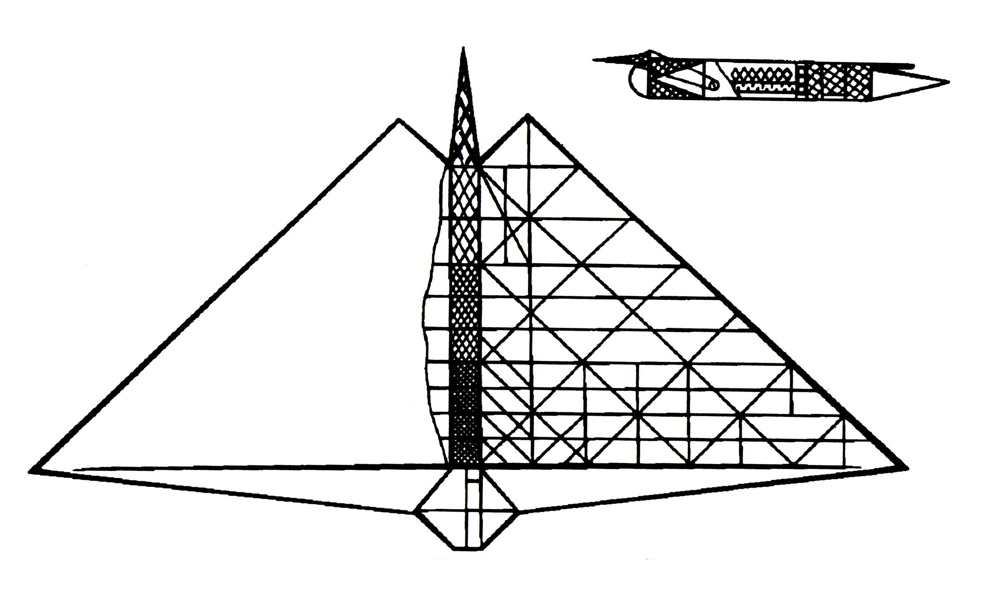 The Improved System of Aeronautics, a project of an aircraft propelled by a liquid-fuel pulsejet, designed by the Russian engineer and businessman Nikolai Afanasievich Teleshov (1828—1895).The outline from the Patent of France No 77550, 17 August 1867.The aircraft was supposed to be a high wing monoplane, with the wing of the triangular form (sweep angle 45°).The Improved System of Aeronautics was never built.